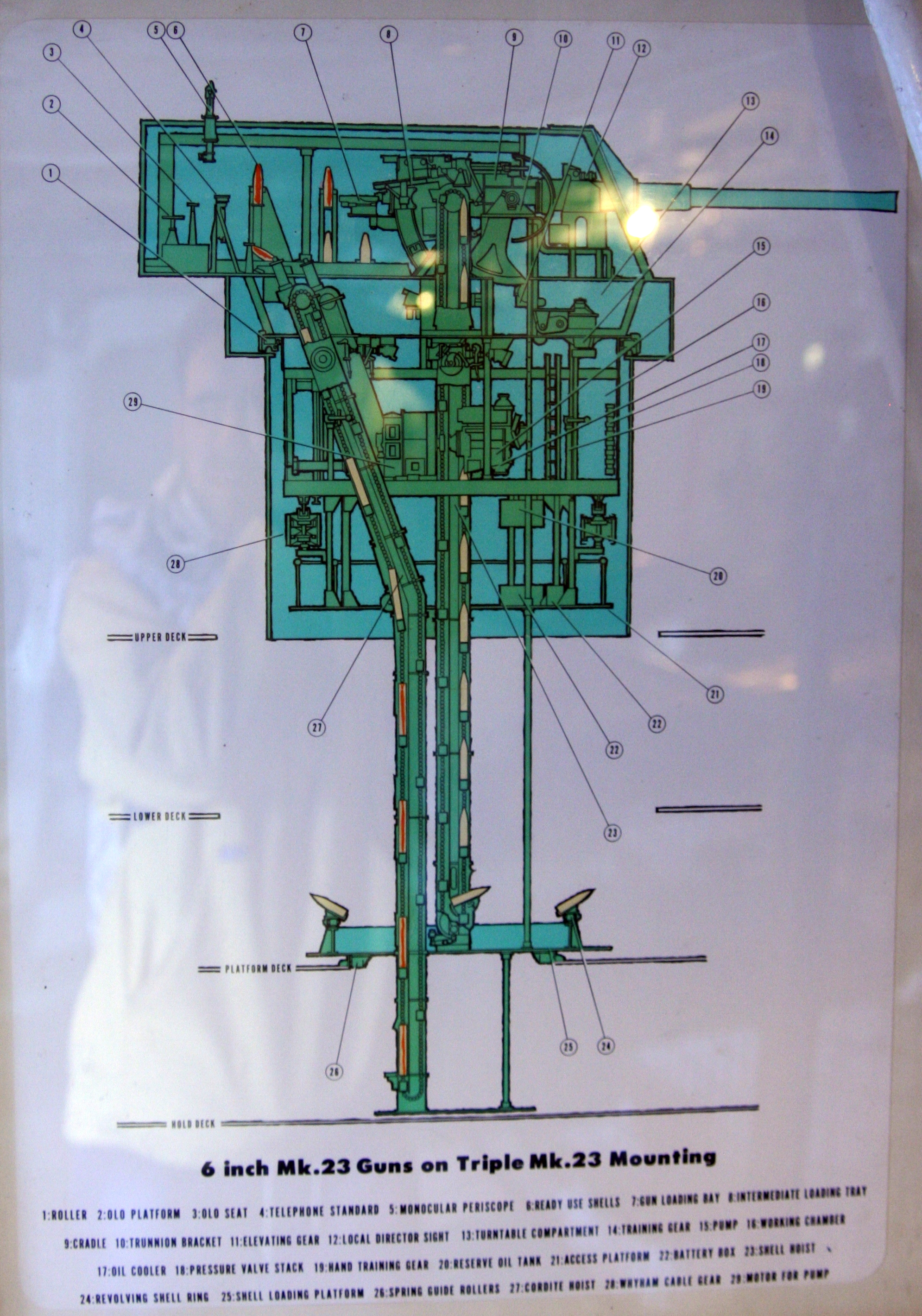 Diagram of a 6" gun turret on HMS Belfast